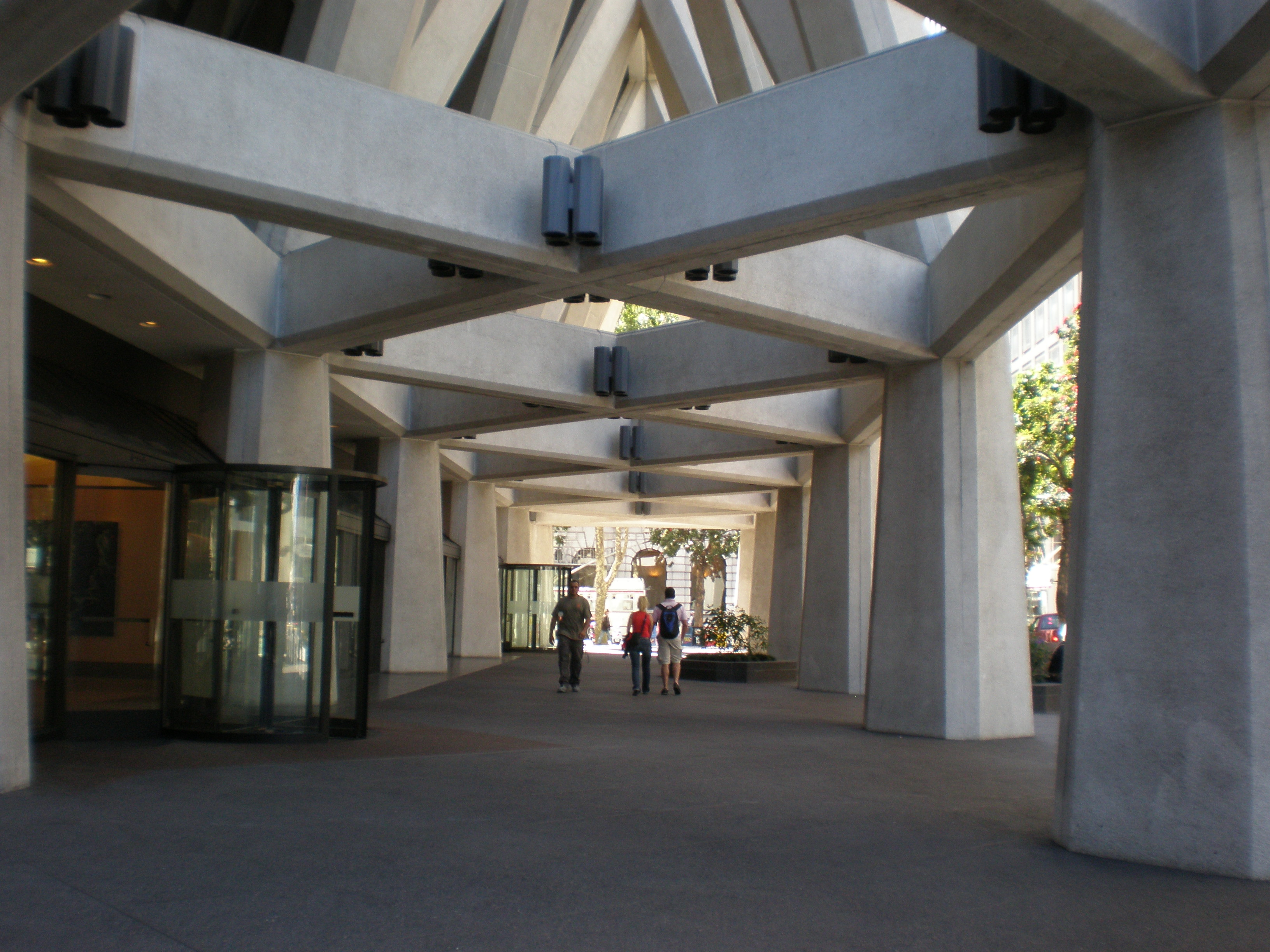 A walkway along the base of the Transamerica Pyramid in San Francisco.